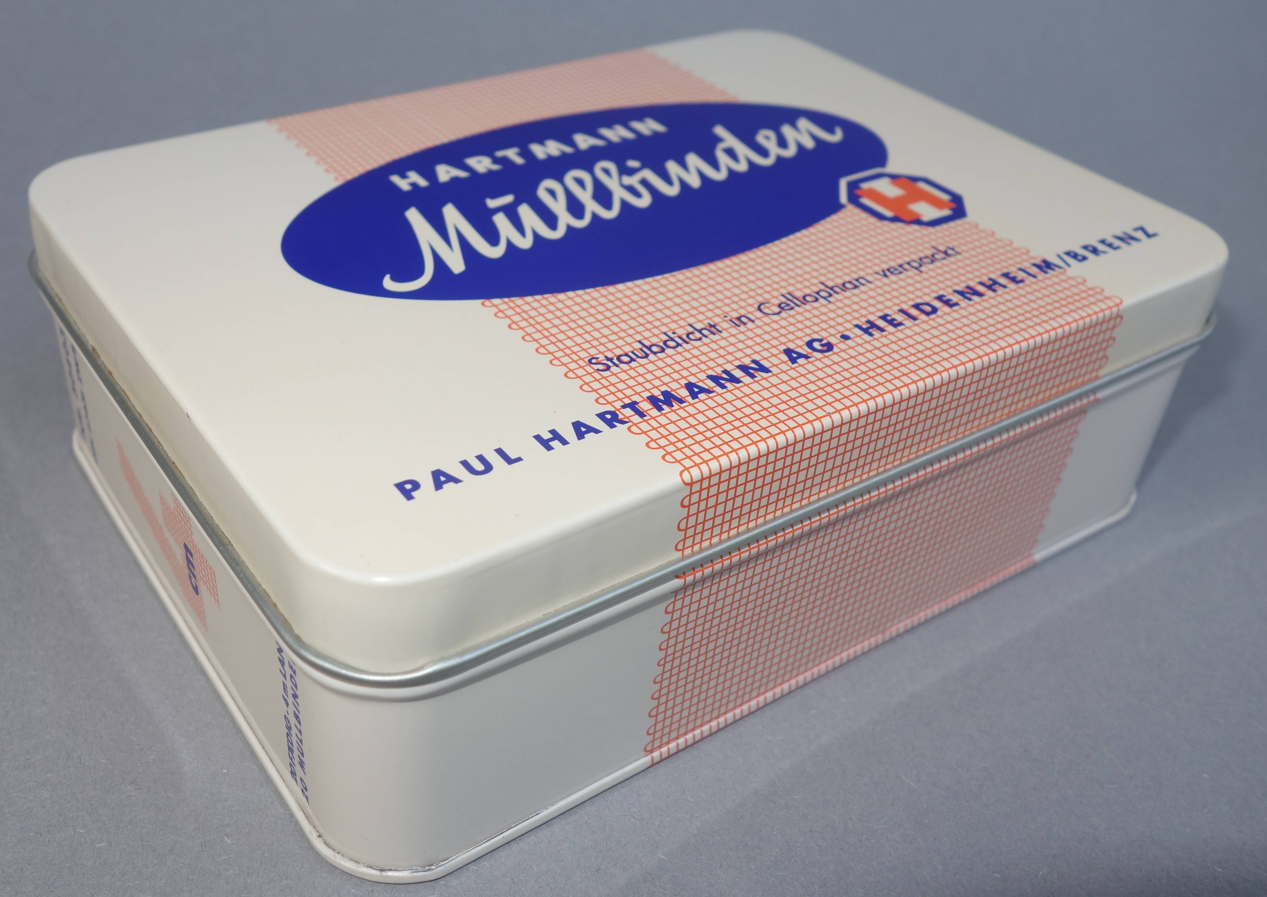 Dressing for wound treatment